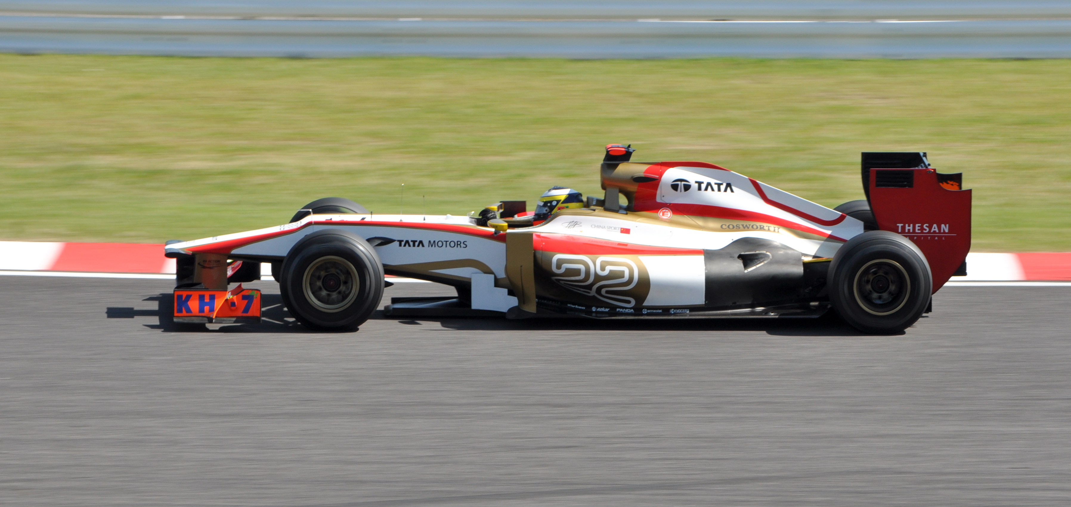 Pedro de la Rosa steers his HRT through the high speed 'esses' of the Suzuka Circuit during the first free practice session of the 2012 Formula 1 Japanese Grand Prix.